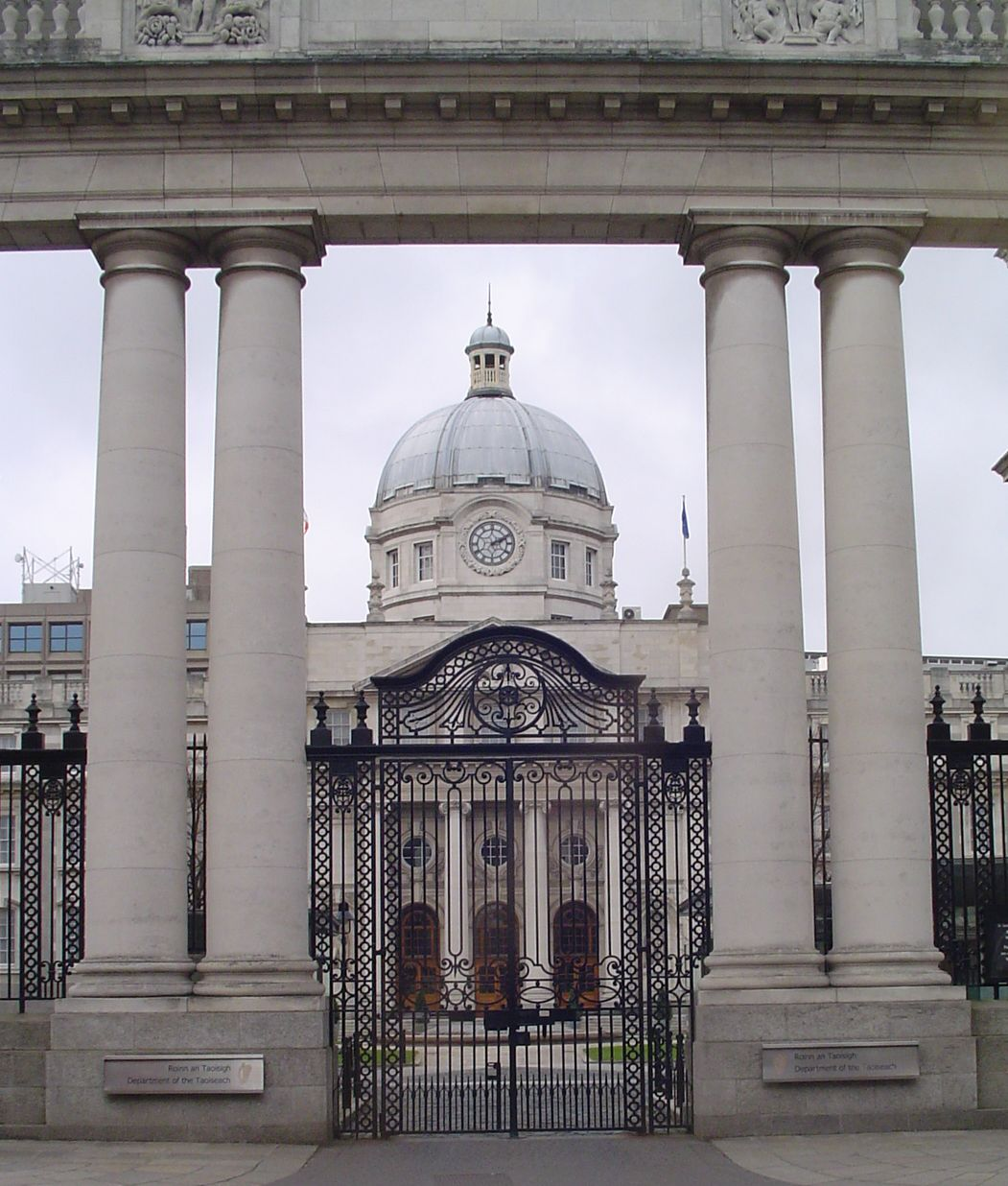 Department of the Taoiseach in Merrion Square, Dublin.